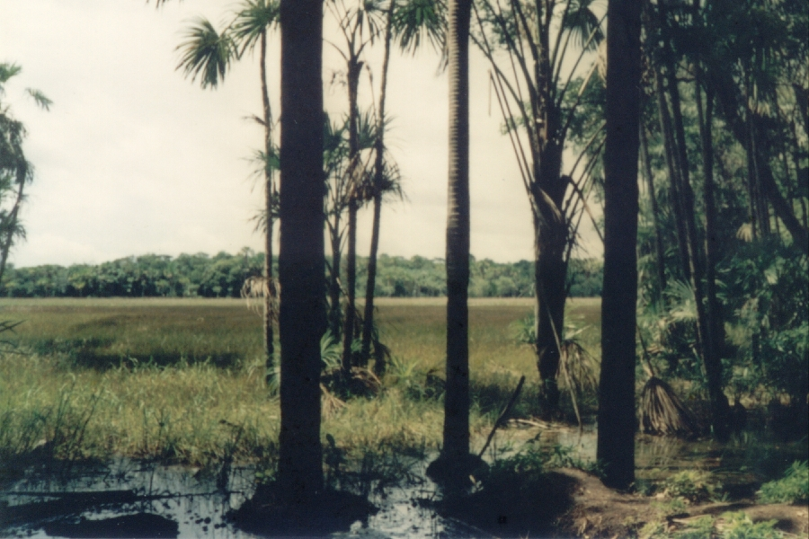 Amazon forest near Macapá (1990)